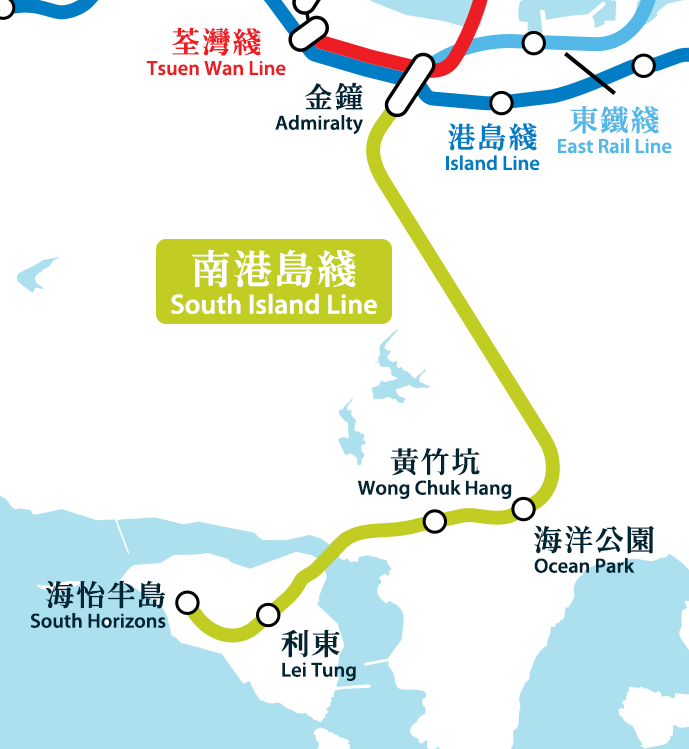 MTR South Island Line Geograpical Map